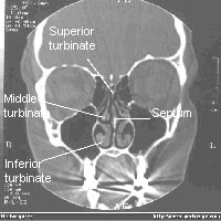 Front cross CT sections of nasal cavities in a normal nose